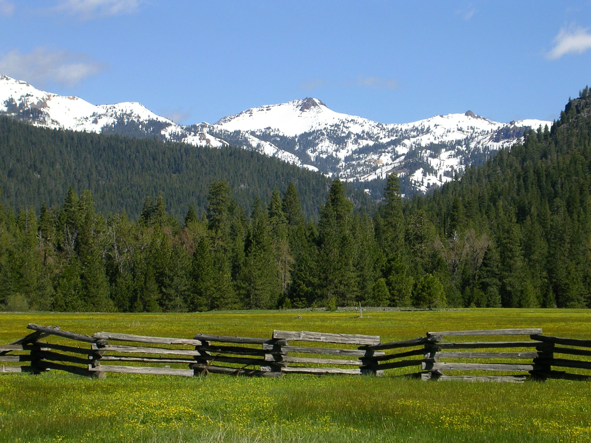 The caldera of a volcano in Lassen National Park, seen from a meadow south of the park.